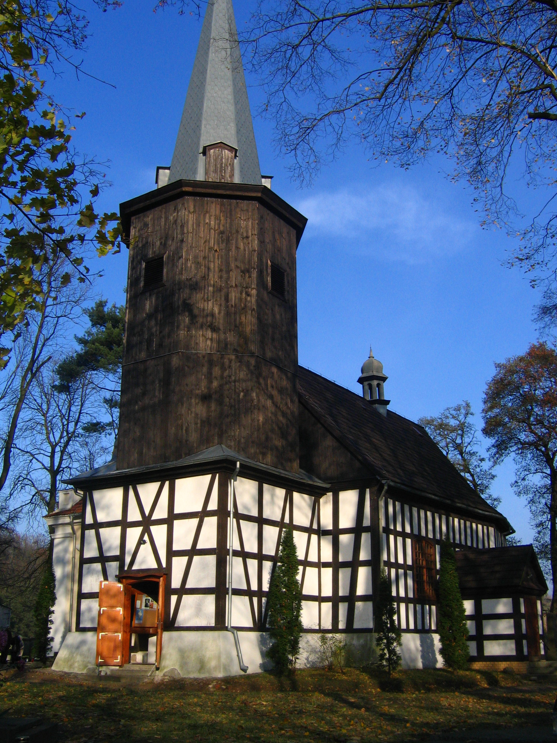 St Michael's Church, Uzarzewo